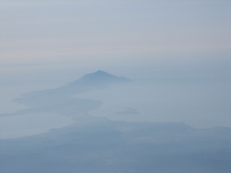 Athos before sunrise from A319.